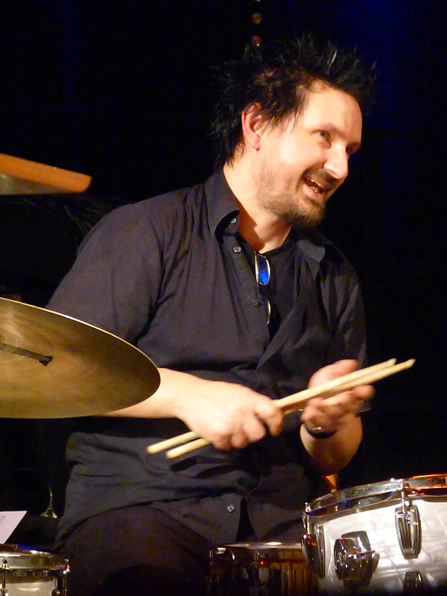 Nils Tegen (dr) in concert with Simon Seidl (p), Tobias Hoffmann (g), Fabian Dudek (s), and David Helm (b) at the ARTheater, Cologne, Germany, October 13th, 2015